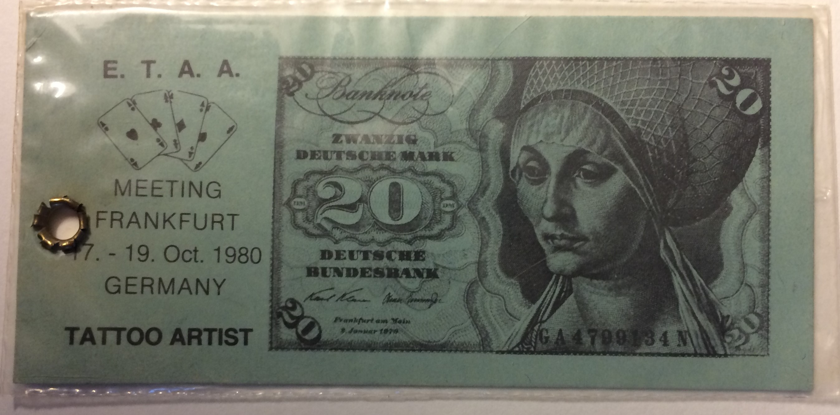 admission card for Tattoo Artists the tattoo-meeting 1980 in Frankfurt / Main, Germany